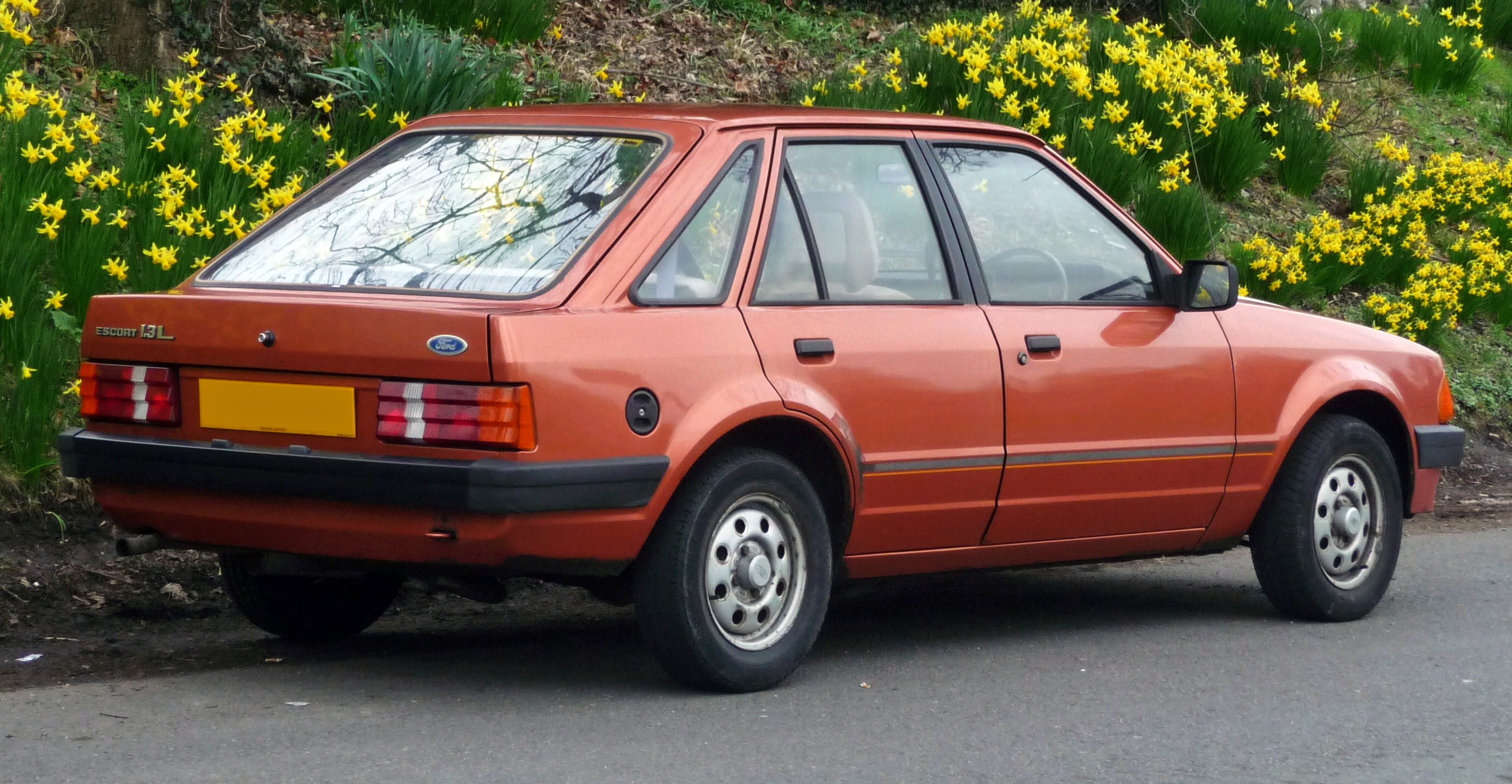 1982 Ford Escort 1.3L five-door hatchback in good nick.